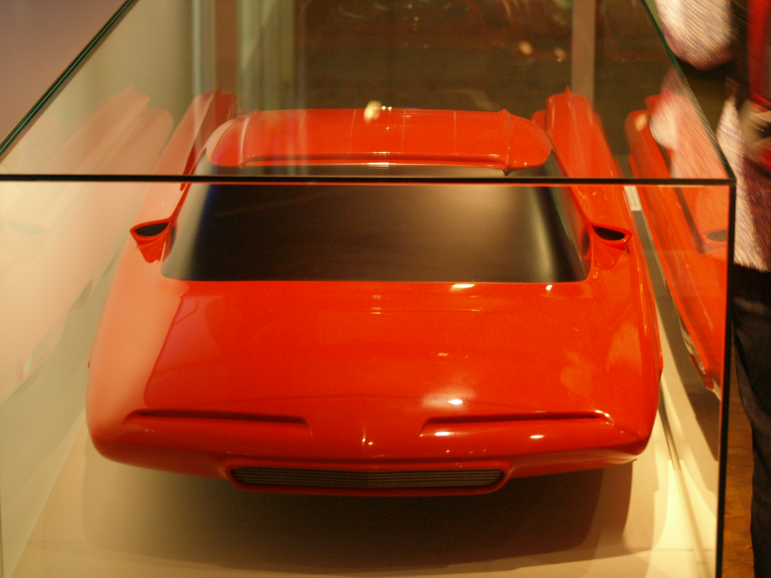 Ford Nucleon, a concept car (1958) in the German Museum of Technology in Berlin